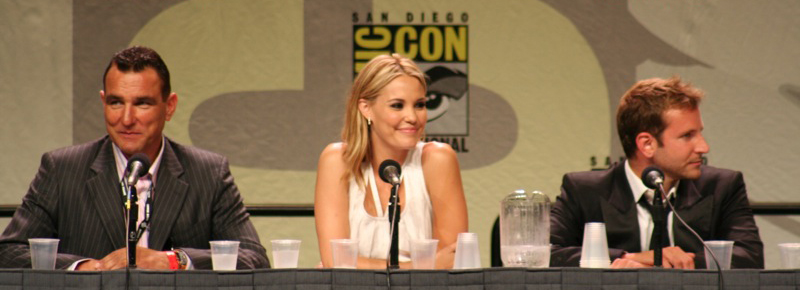 Actors Vinnie Jones, Leslie Bibb, and Bradley Cooper at Comic-Con promoting The Midnight Meat Train